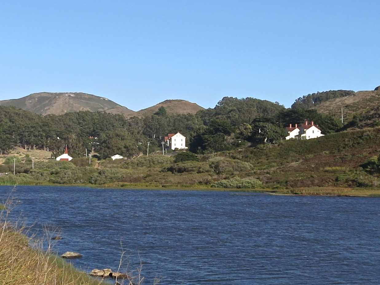 Forts Baker, Barry, and Cronkhite